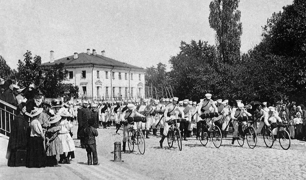 Cadets Corps of Poltava go on military exercise. Poltava 1900